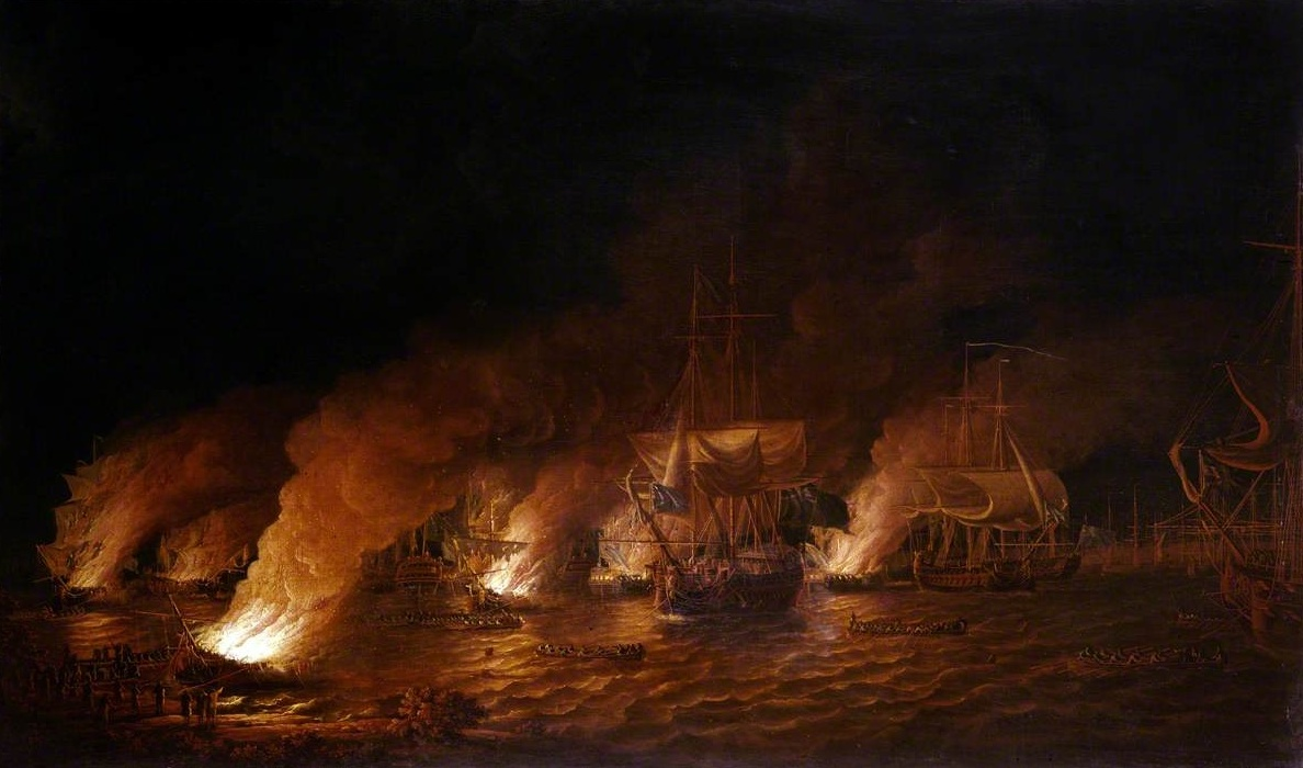 French Fire-Ships Attacking the English Fleet off Quebec, 28 June 1759. An incident during the Seven Years War, 1756–1763, between France and Britain. 1759 was a year of victories for Britain and on 26 June Admiral Sir Charles Saunders' powerful fleet, which had conveyed Major-General James Wolfe's land forces to Canada, anchored off the Ile d'Orleans on the St Lawrence River, below Quebec. At midnight on 28 June the French attacked with seven fire-ships and two fire-rafts. National Maritime Museum (Greenwich Hospital Collection). Measurements : 91.4 x 152.4 cm.